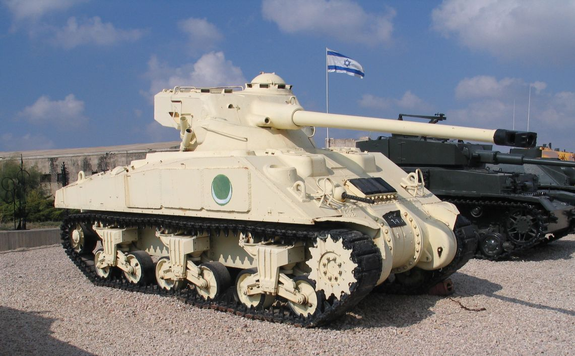 Description: Captured Egyptian M4 Sherman tank with AMX-13 tank turret in Yad la-Shiryon Museum, Israel. 2005. The tank seems to combine a hull of early production M4A4 and an engine of M4A2. Source: Photo by me, User:Bukvoed.